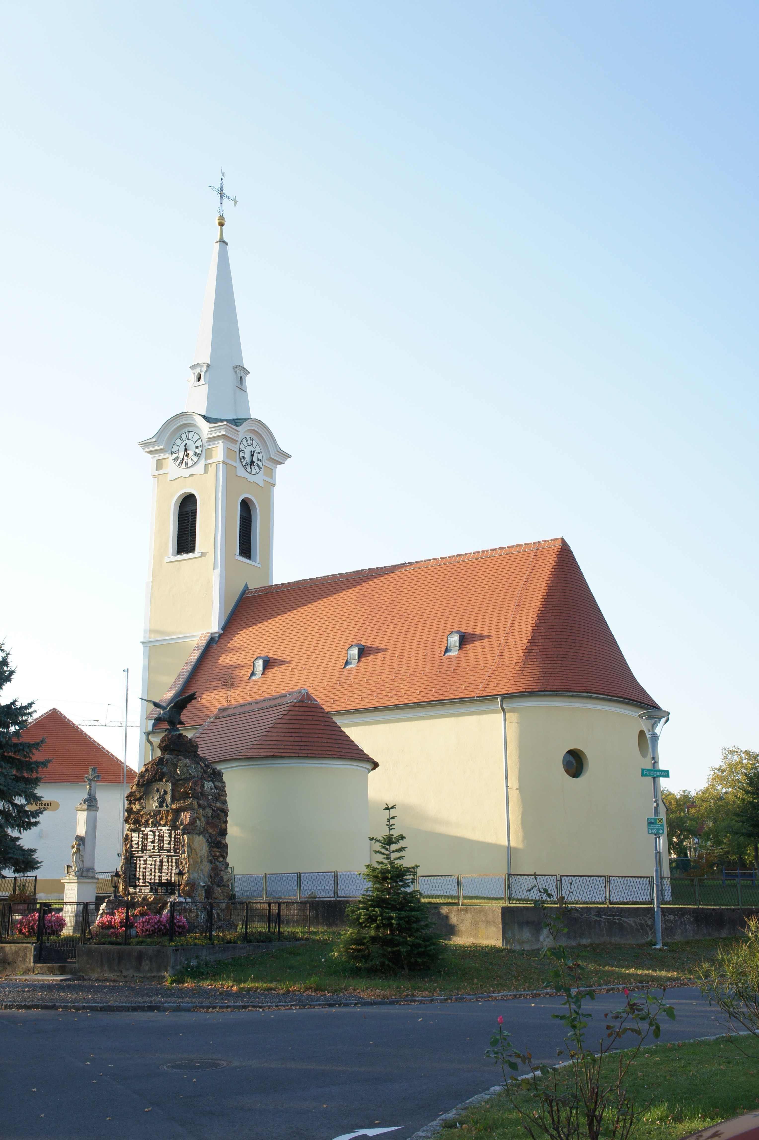 Catholic church St. Nikolas, Kaisersdorf, Austria